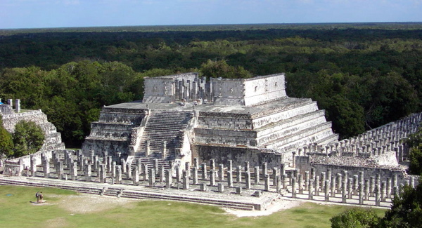 Some of the ruins of Chichen Itza, taken from the top of El Castillo.